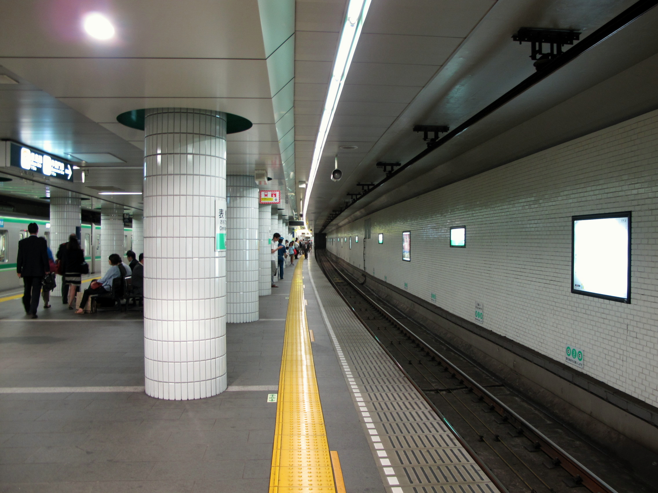 Omote-sando Station Chiyoda Line Platform